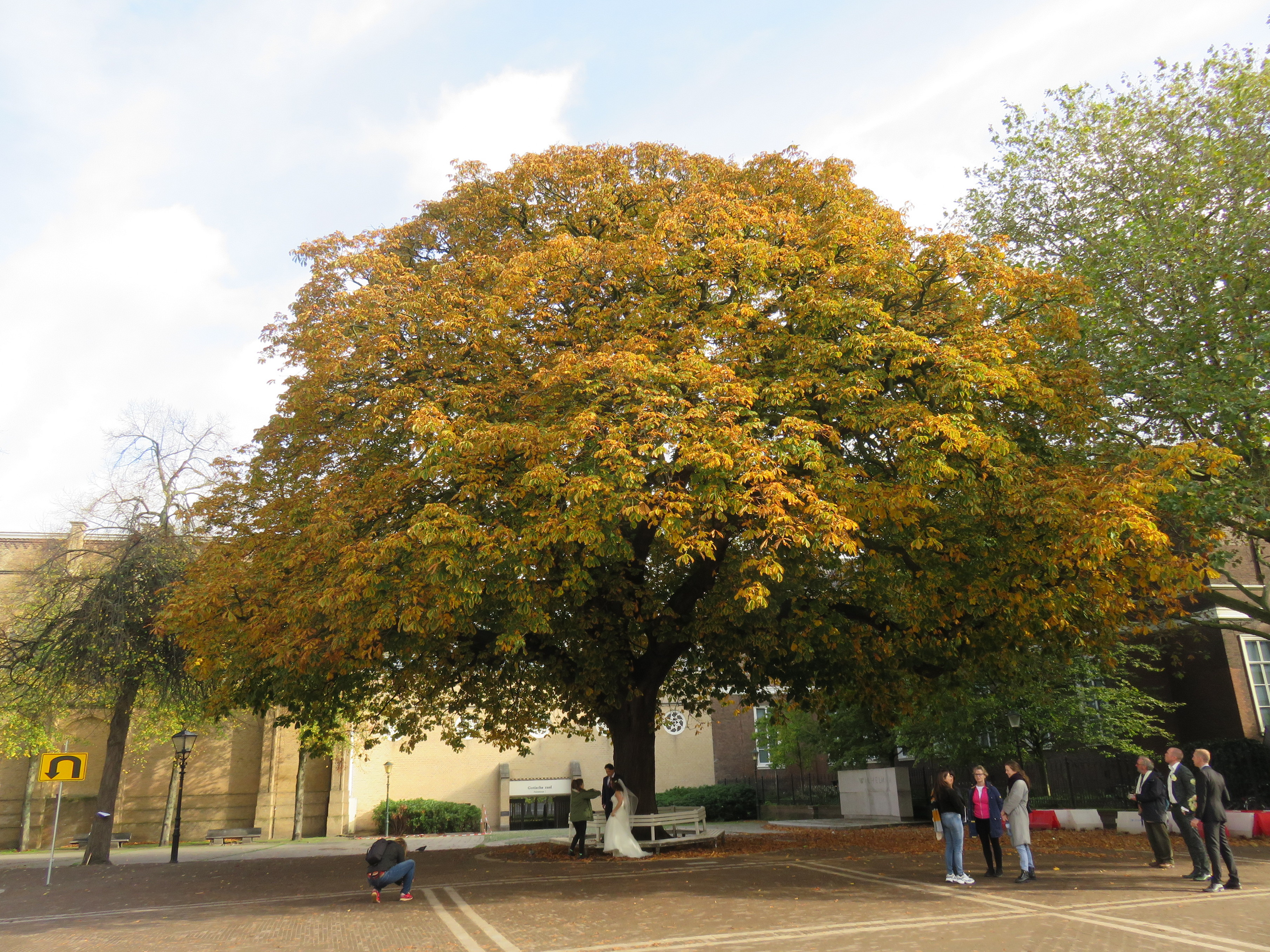 Aesculus hippocastanum in Den Hague (NL) opposite Noordeinde Palace. Other name of this tree is 'Postzegelboom' because in years before under this tree was a stamp (postzegel) market.